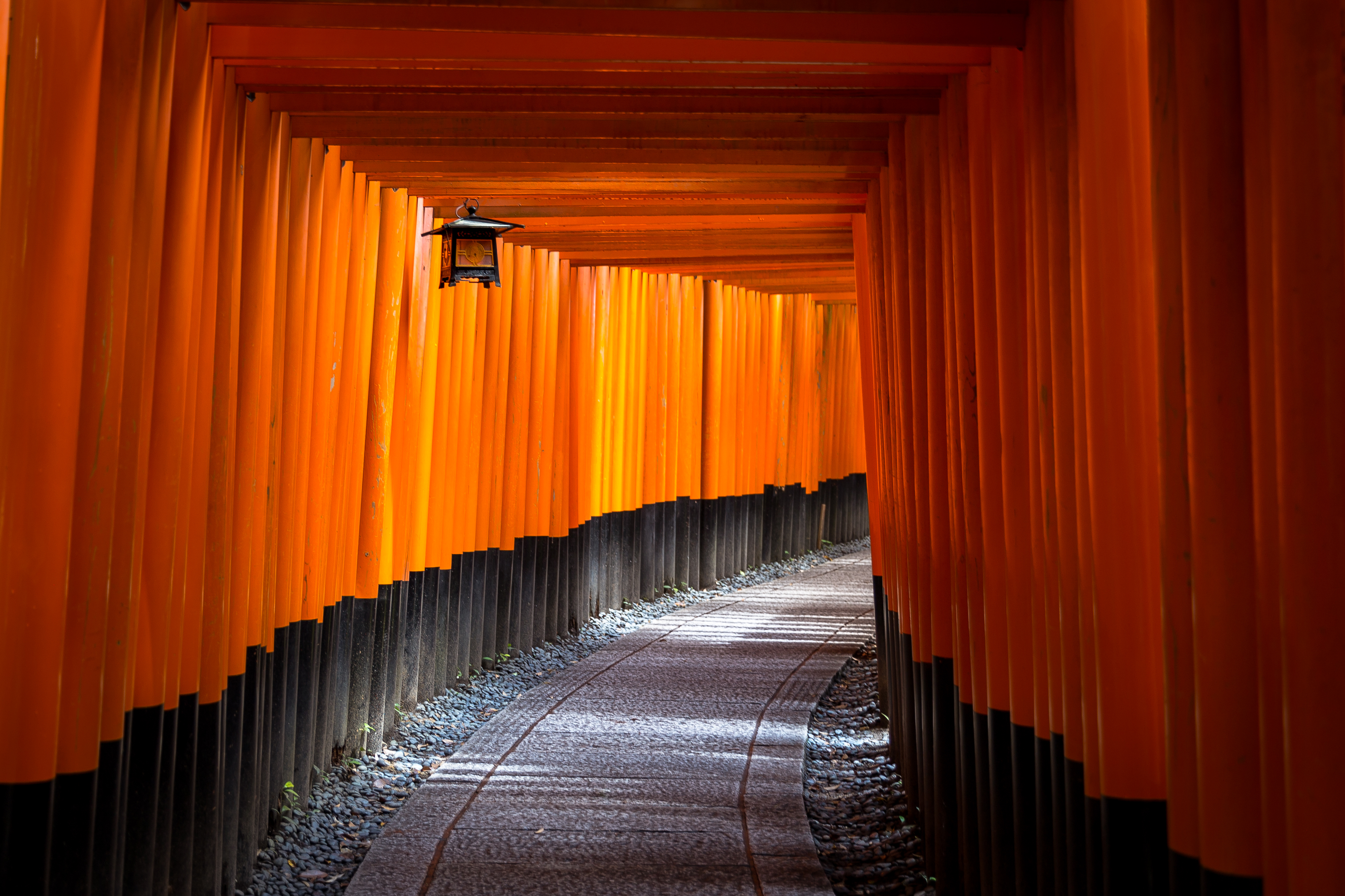 Fushimiinari Shrine, Kōtō-ku, Japan